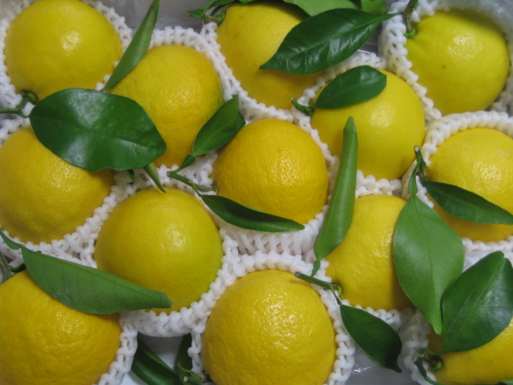 Hyūganatsu (Citrus tamurana) fruit Picture taken by me. (2006/3/24 in Kagoshima, Japan)